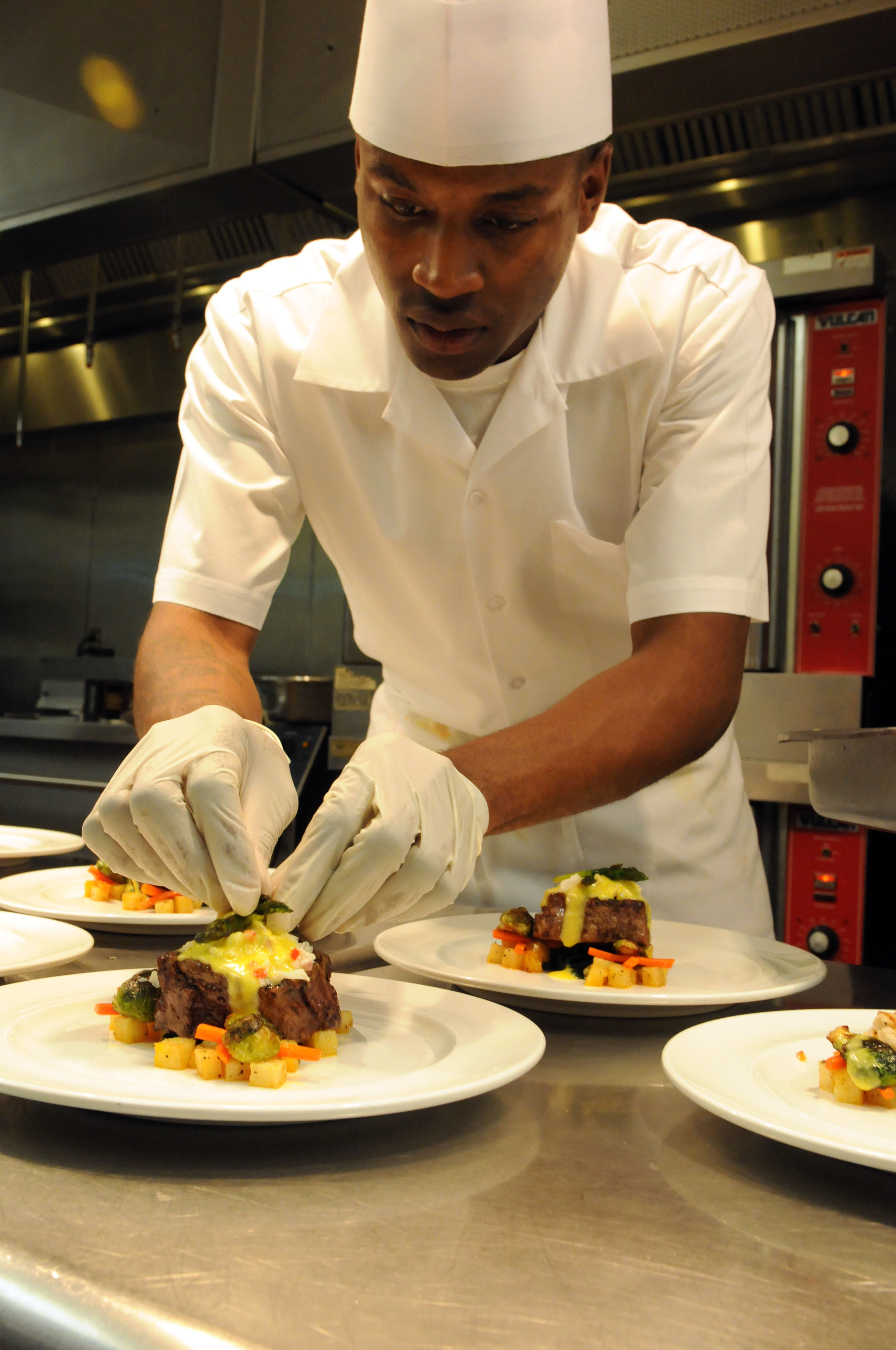 U.S. Army Pvt 1st Class Brian Palmer add final touches to their main course, char grilled oscar filet mignon topped with lump crab salad, asparagus tips and glazed vegetables, for the guests of the Soldier Luncheon held at the Highland Country Club in Fayetteville, N.C., Oct. 14, 2011. (U.S Army photo by Sgt. Christopher Harper / Released)